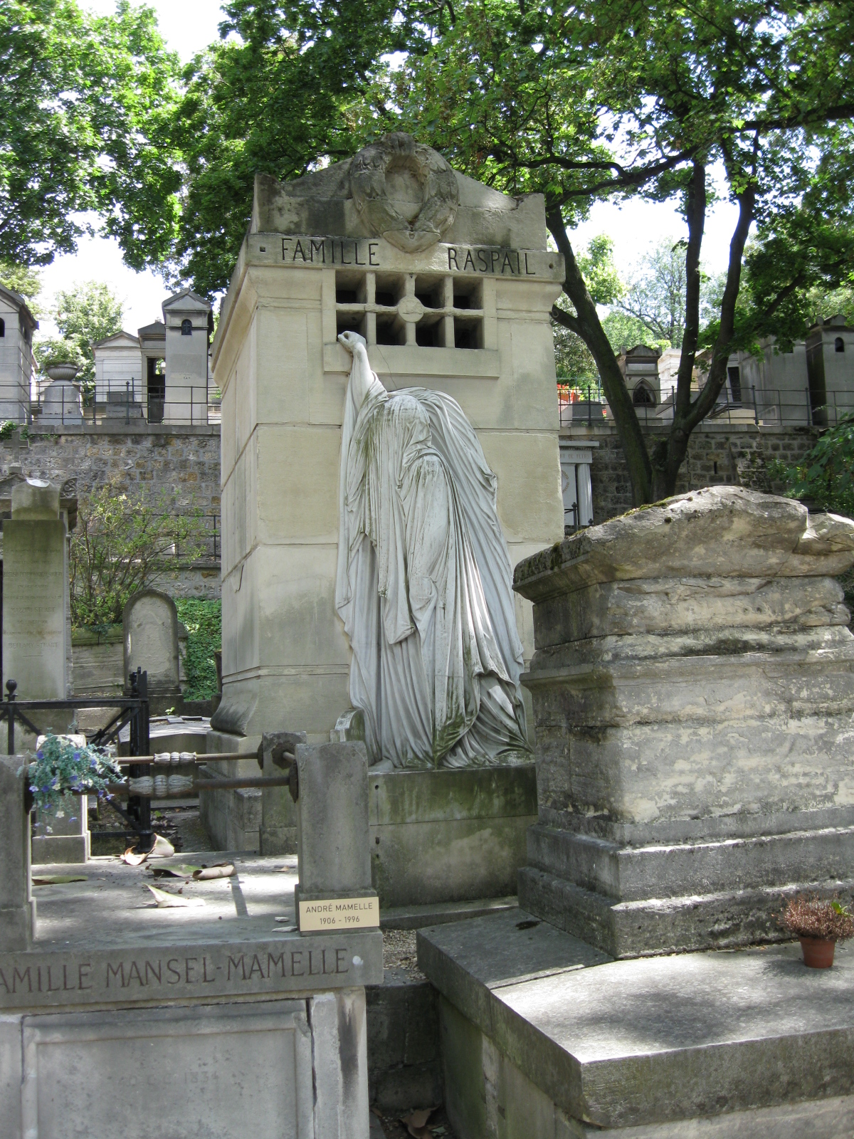 Raspail monument, Père-Lachaise Cemetery